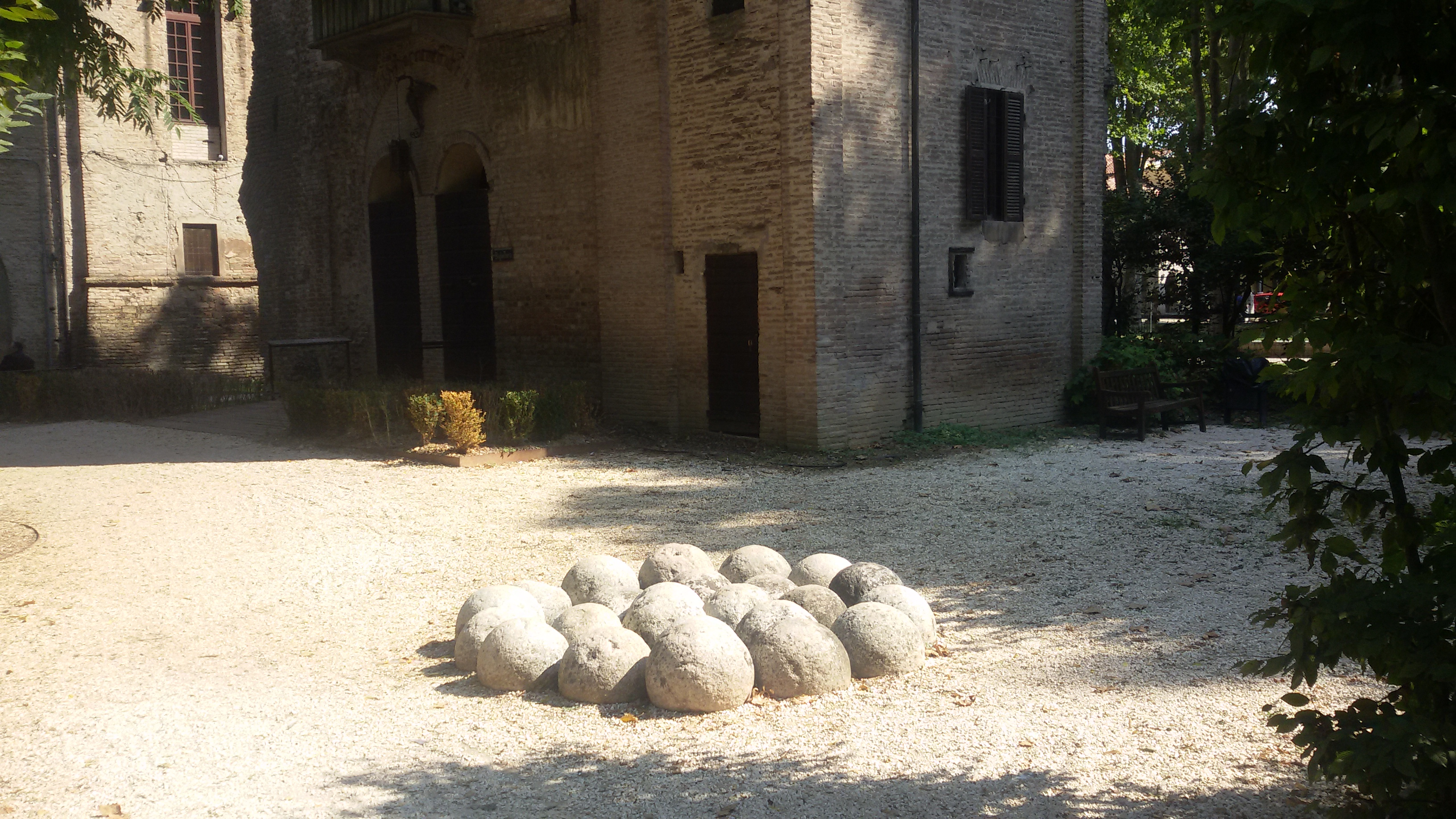 Castle